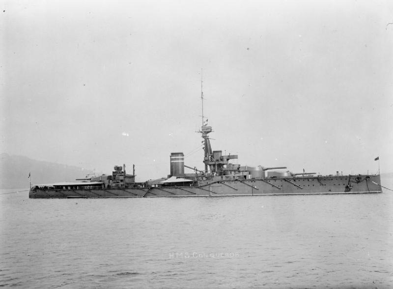 Photograph of British battleship HMS Conqueror.